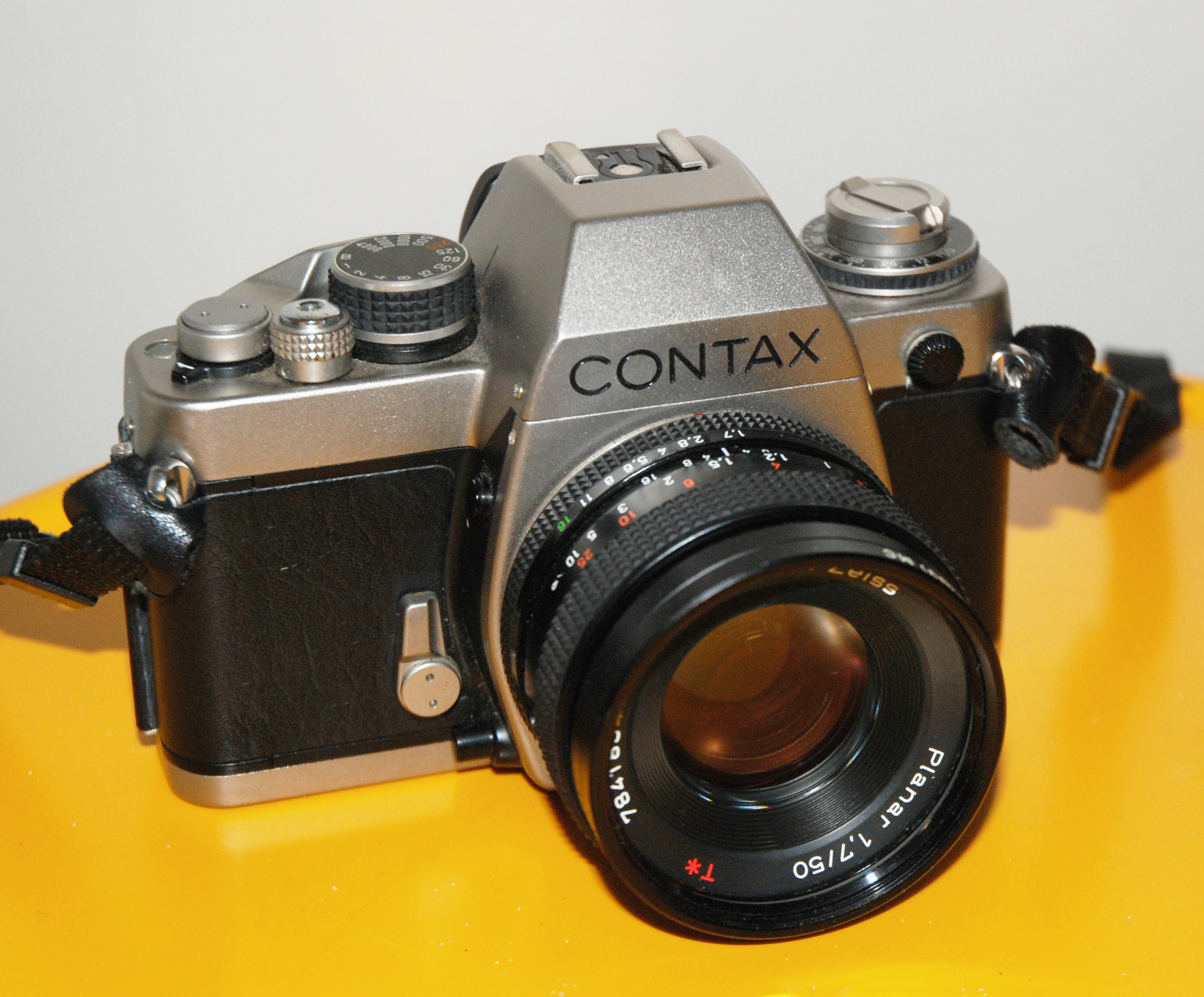 Photograph of a Contax S2 camera with a Carl Zeiss 50mm f1.7 lens.